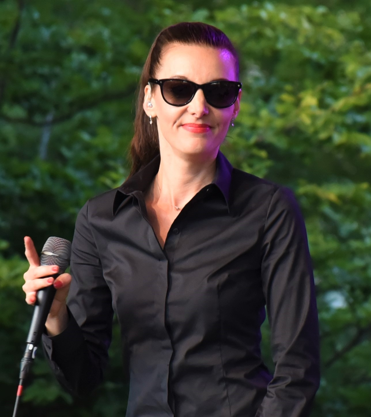 Dasha, Czech vocalist